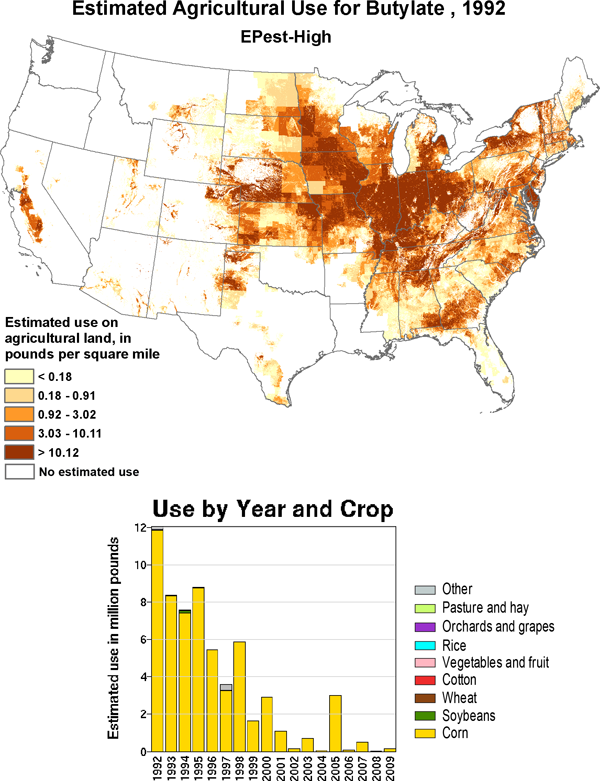 Butylate map of use, USA, 1992 (estimated)